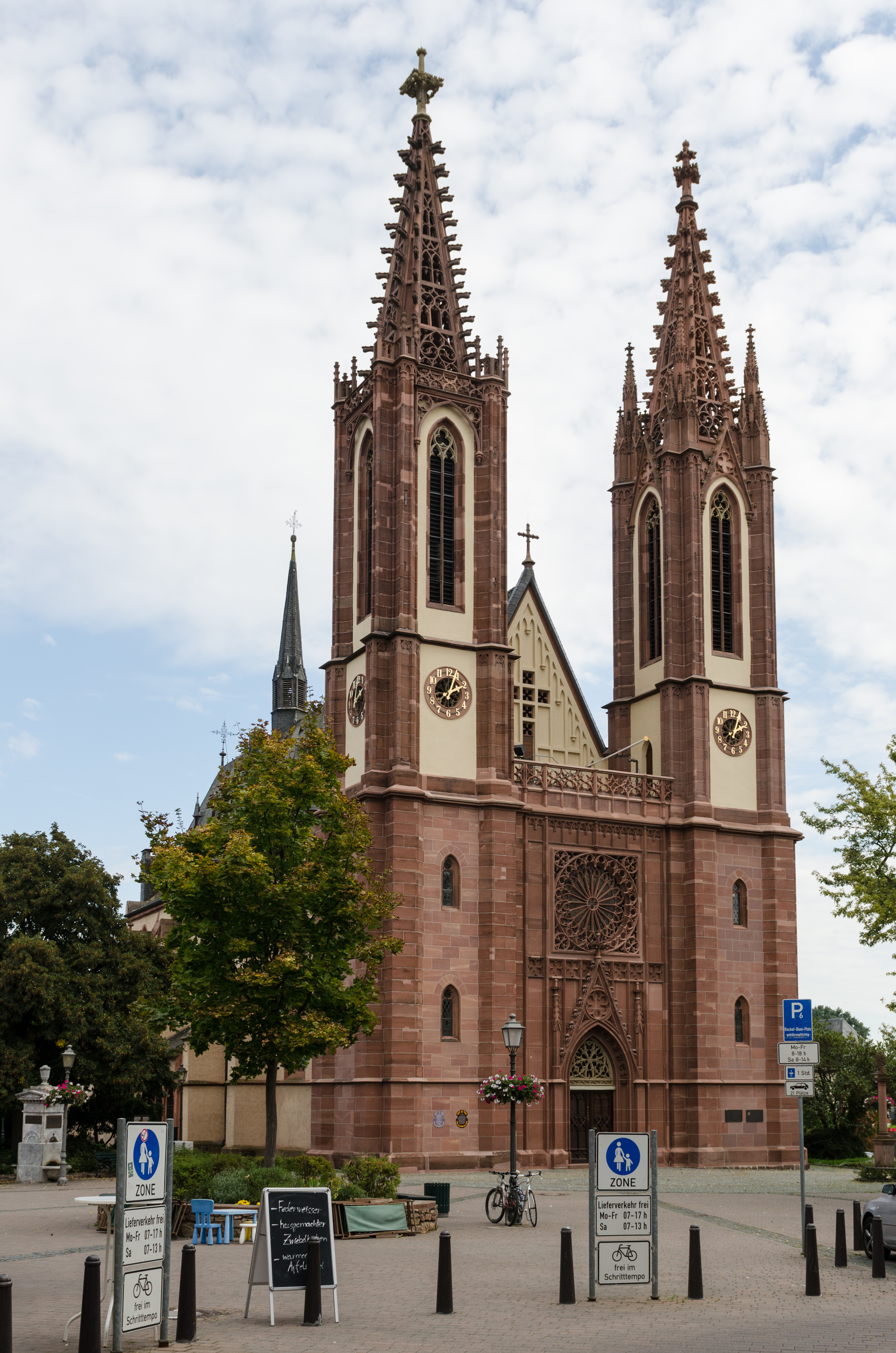 A side view of the Rheingau Cathedral